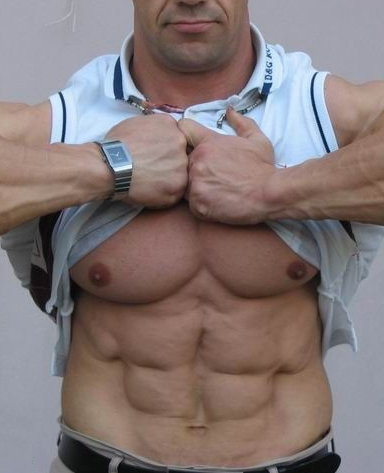 A man lifts his shirt up to expose his well-developed abdominal muscles